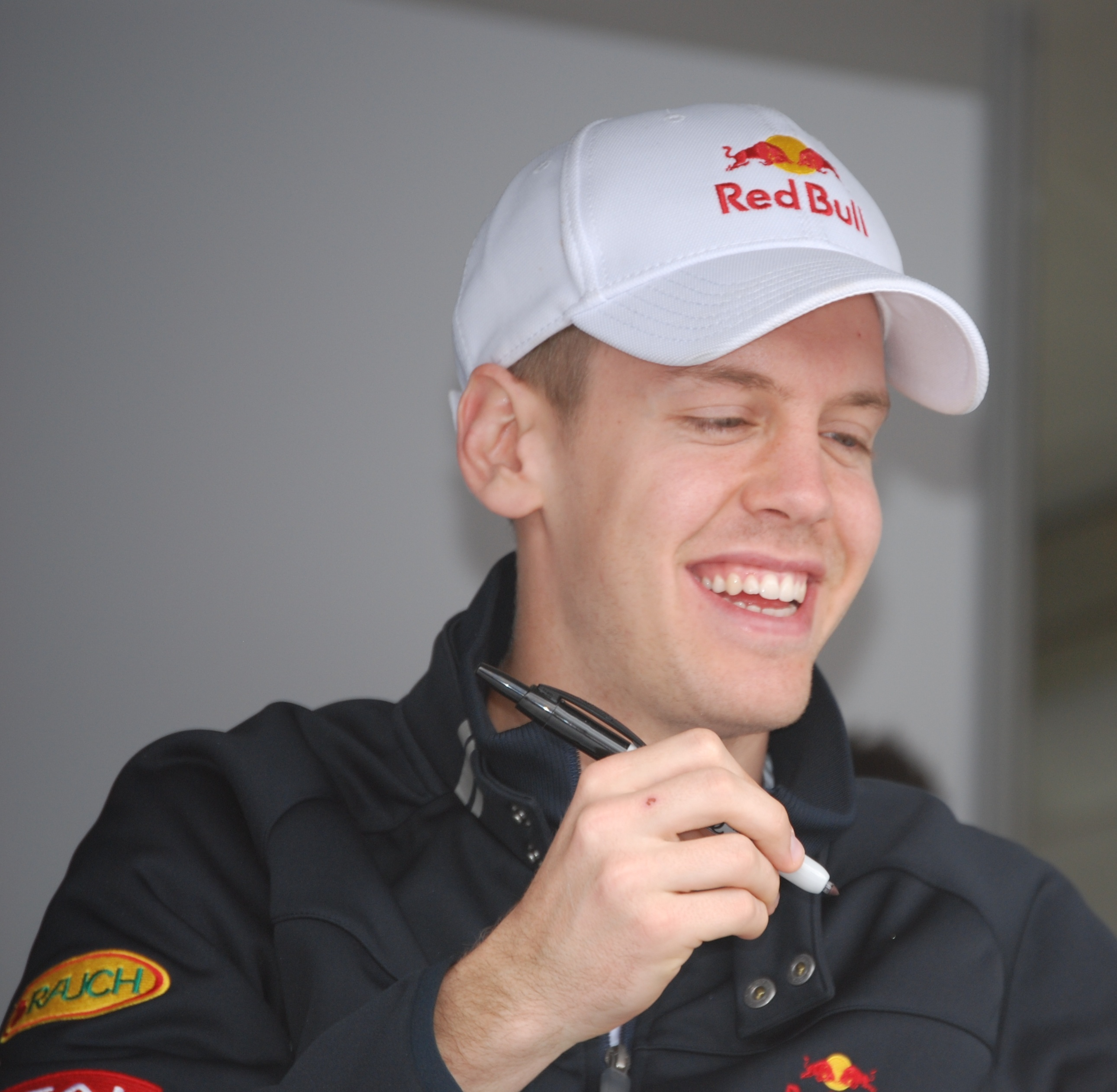 Sebastian Vettel at the 2009 Australian Grand Prix.